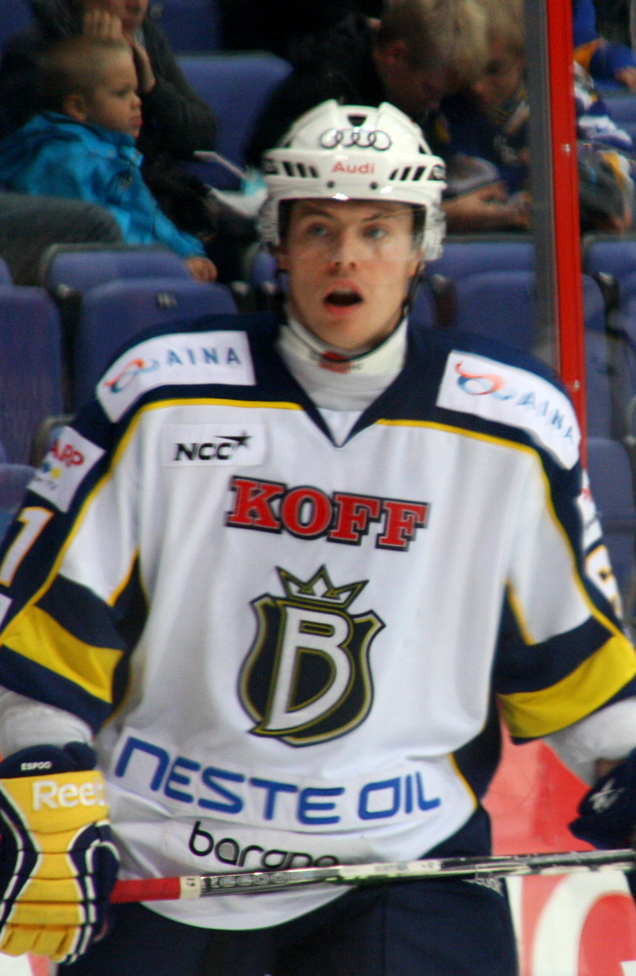 Ice Hockey Team Espoo Blues Attacker #61 Tommi Huhtala